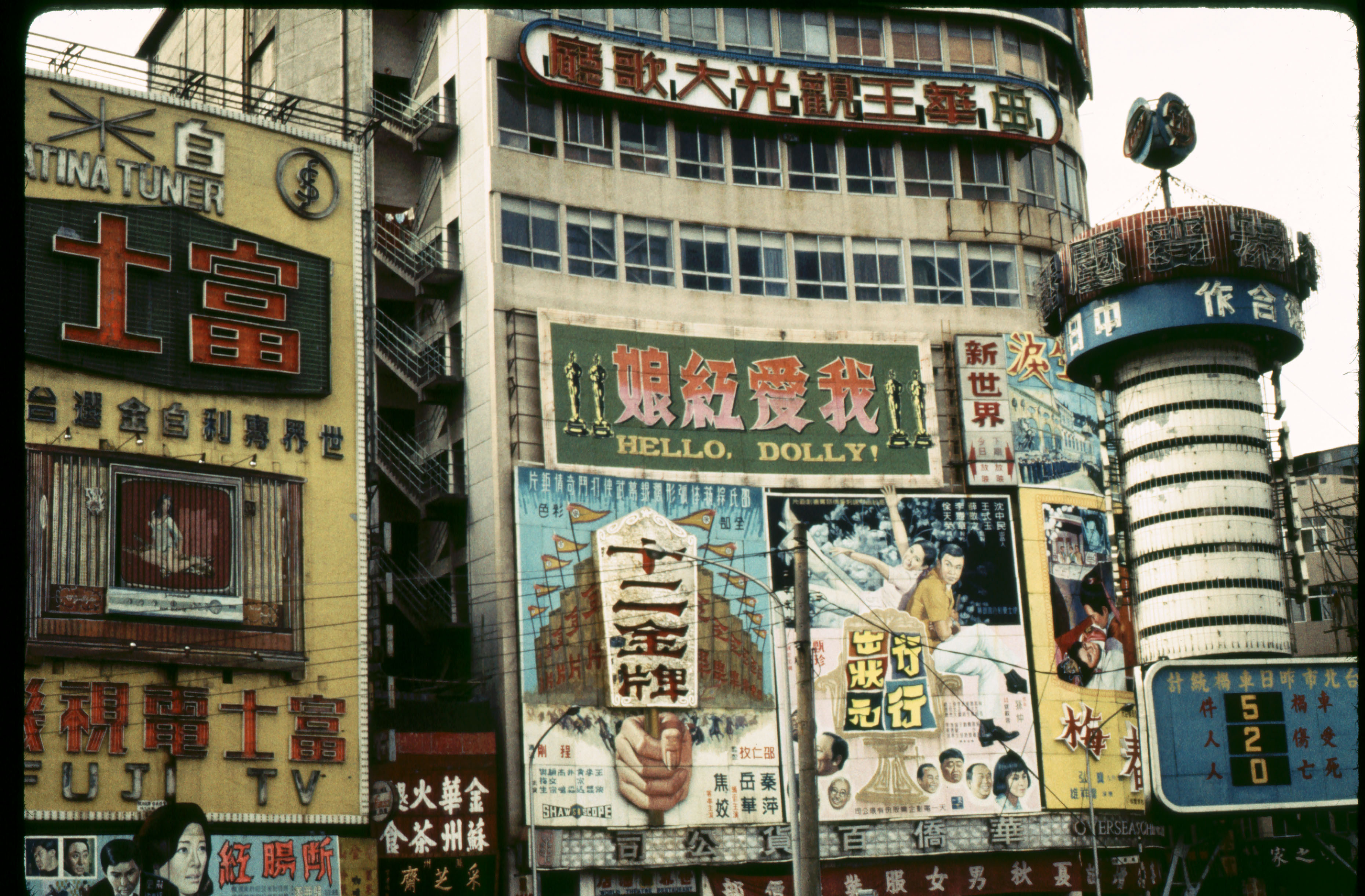 Big advertisements on Central Pictures New World Building.